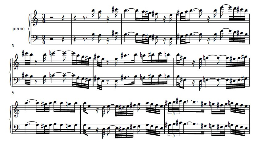 first bars of the third piano concerto from Bela Bartok